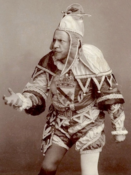 Portrait of Portuguese opera singer Francisco D'Andrade as Rigoletto